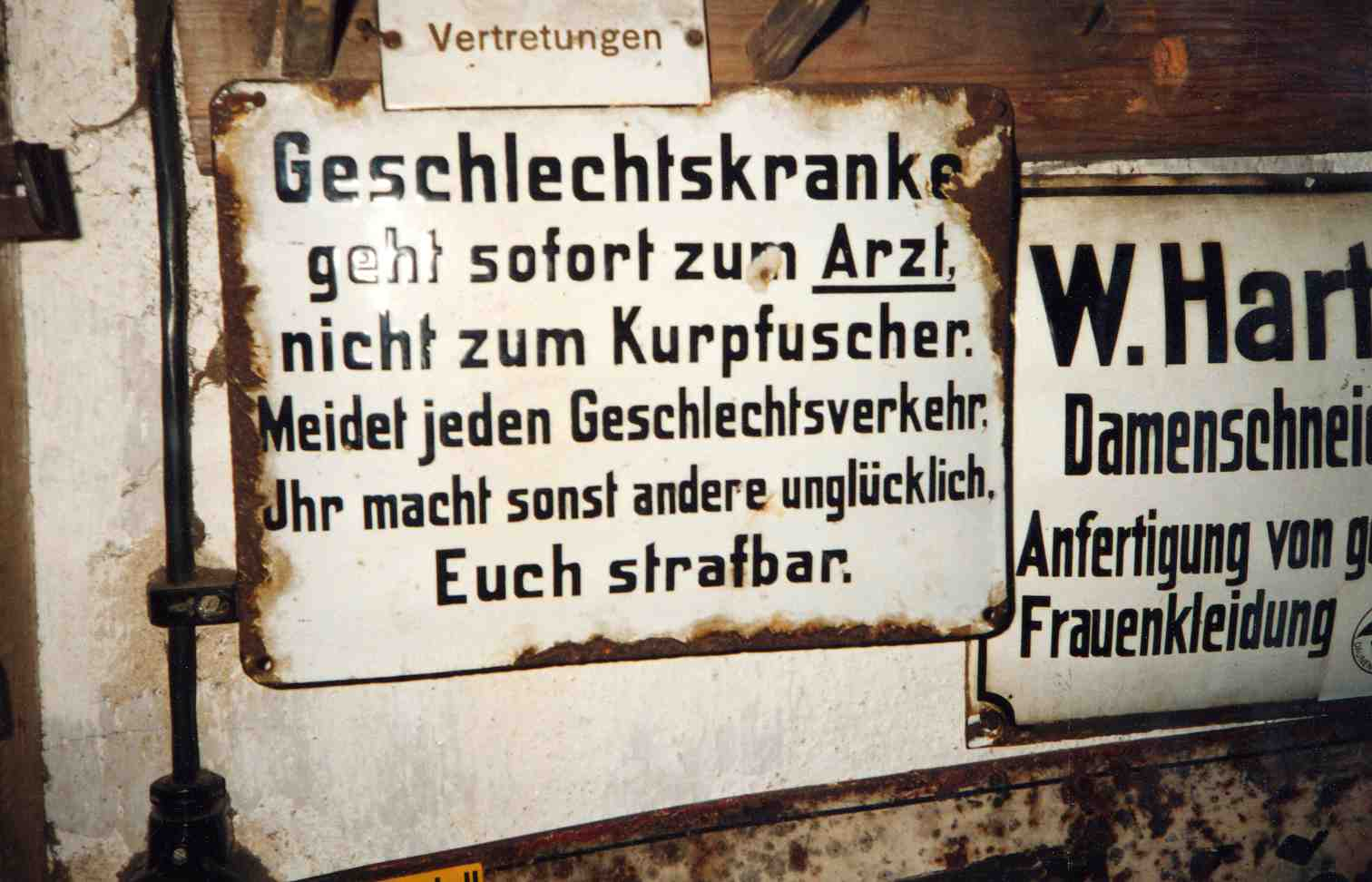 CZ Eastern Bohemia Jizerka8 Dung House signs